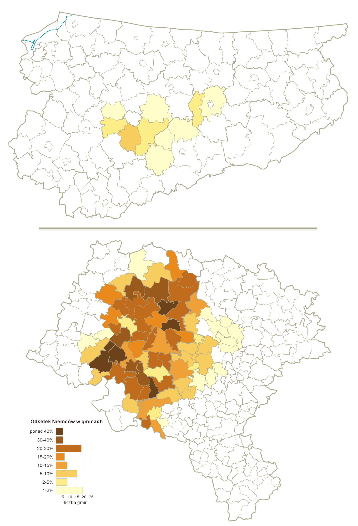 German nationality in communes as declared in the Polish national census in 2002